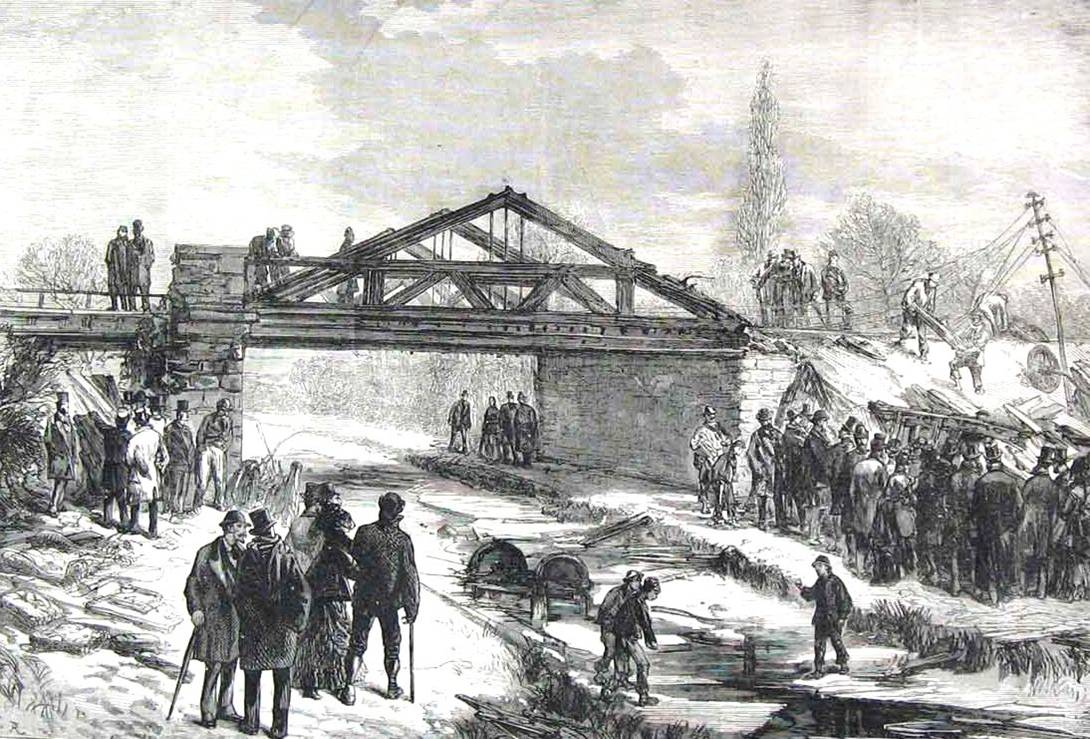 1874 illustration from The Illustrated London News representing the Shipton-on-Cherwell train crash